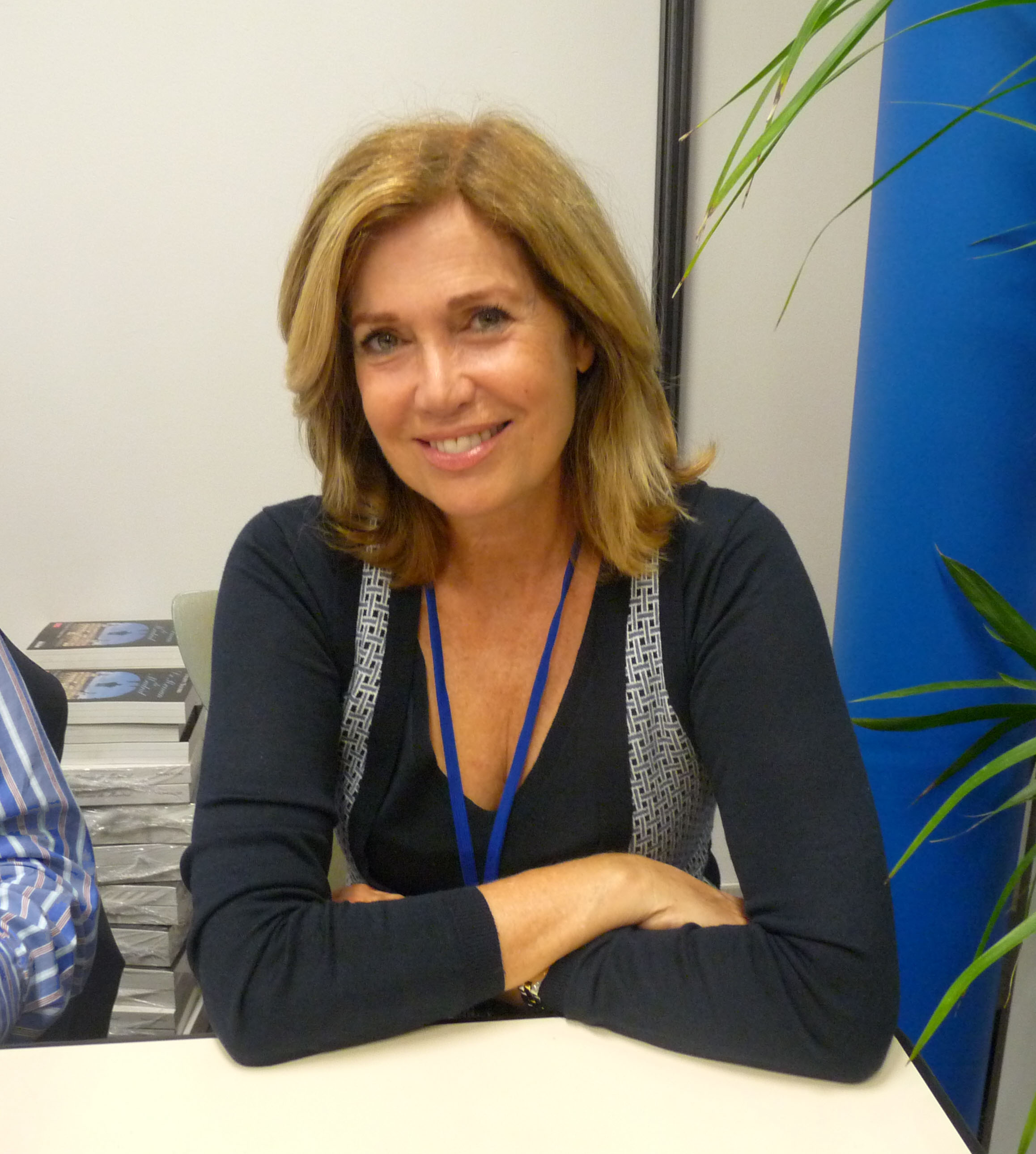 French actress Catherine Alric